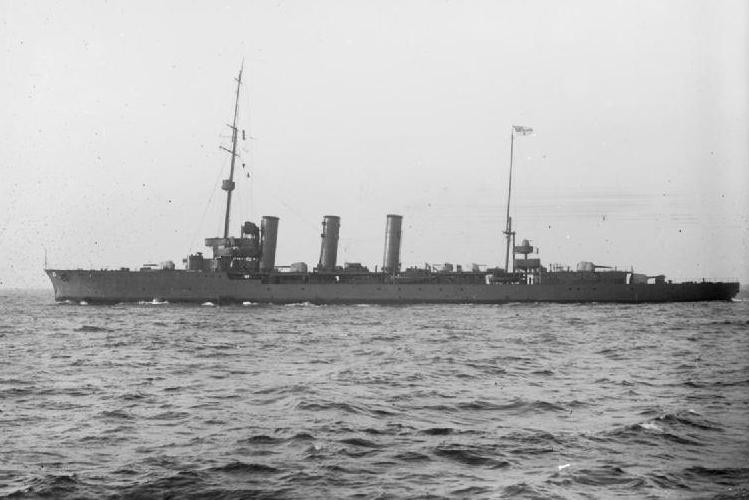 Arrival at Rosyth: SMS BRUMMER